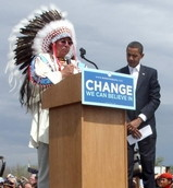 Left: CARL VENNE, Crow Indian Tribal Chairman Right: BARACK OBAMA, United States Senator from Illinois and a candidate for the Democratic Party’s nomination in the 2008 United States presidential election